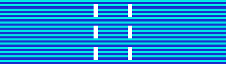 I made this image with Photoshop. DCMA Distinguished Civilian Service Medal Ribbon